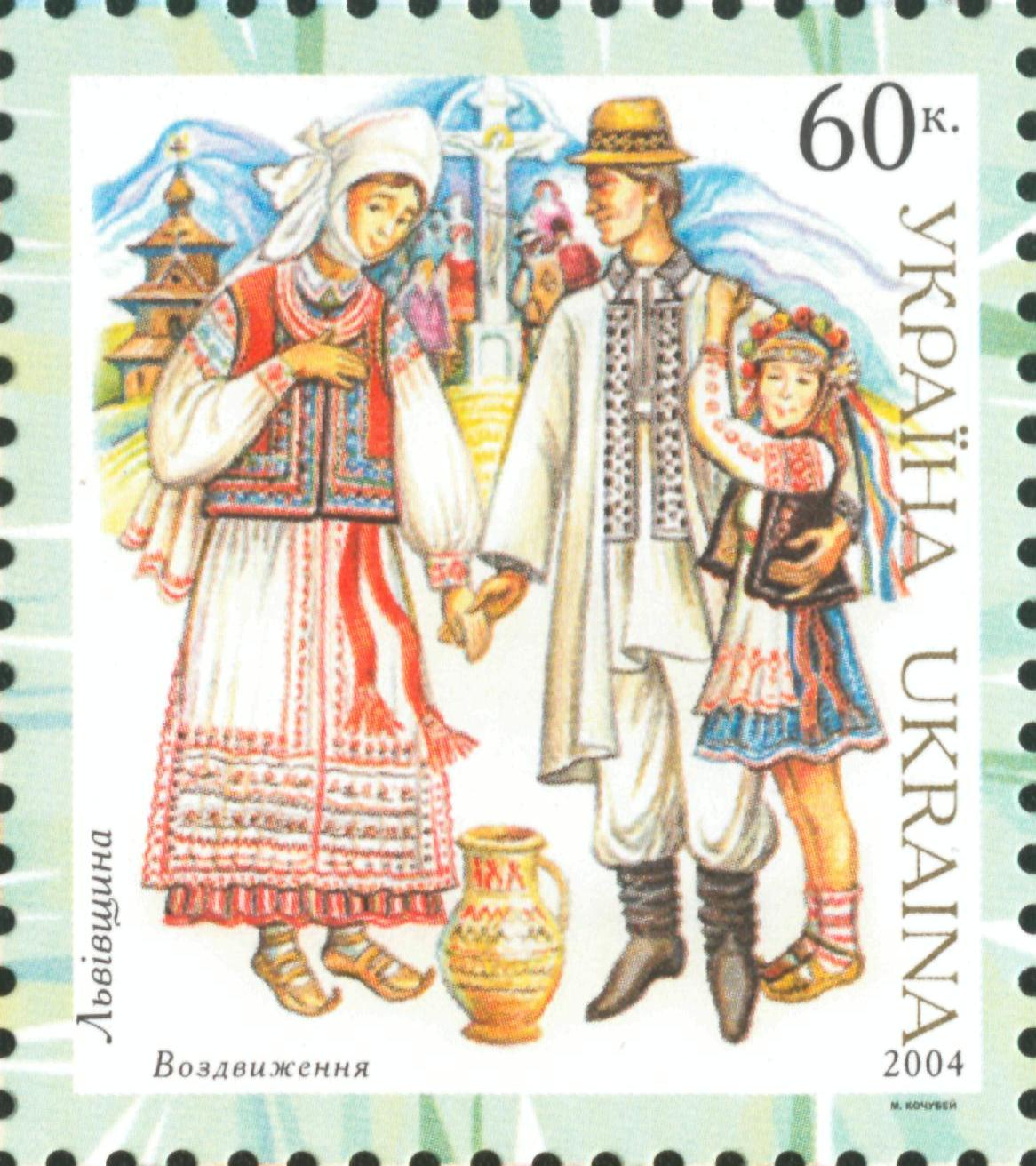 Stamp page (6 stamps) with Ukrainian traditional clothing